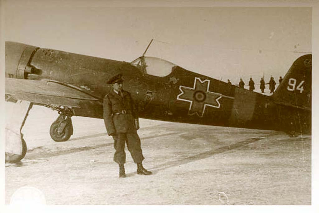 IAR-81 wartime photo